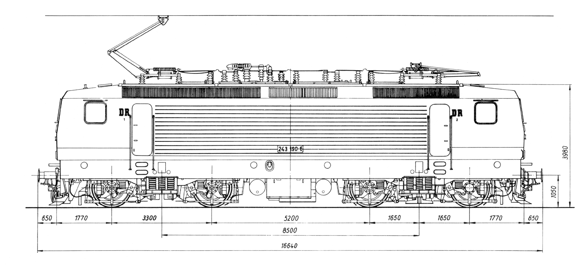 Sectional drawing of the electric locomotive number 243 190 - 6 of the Deutsche Reichsbahn